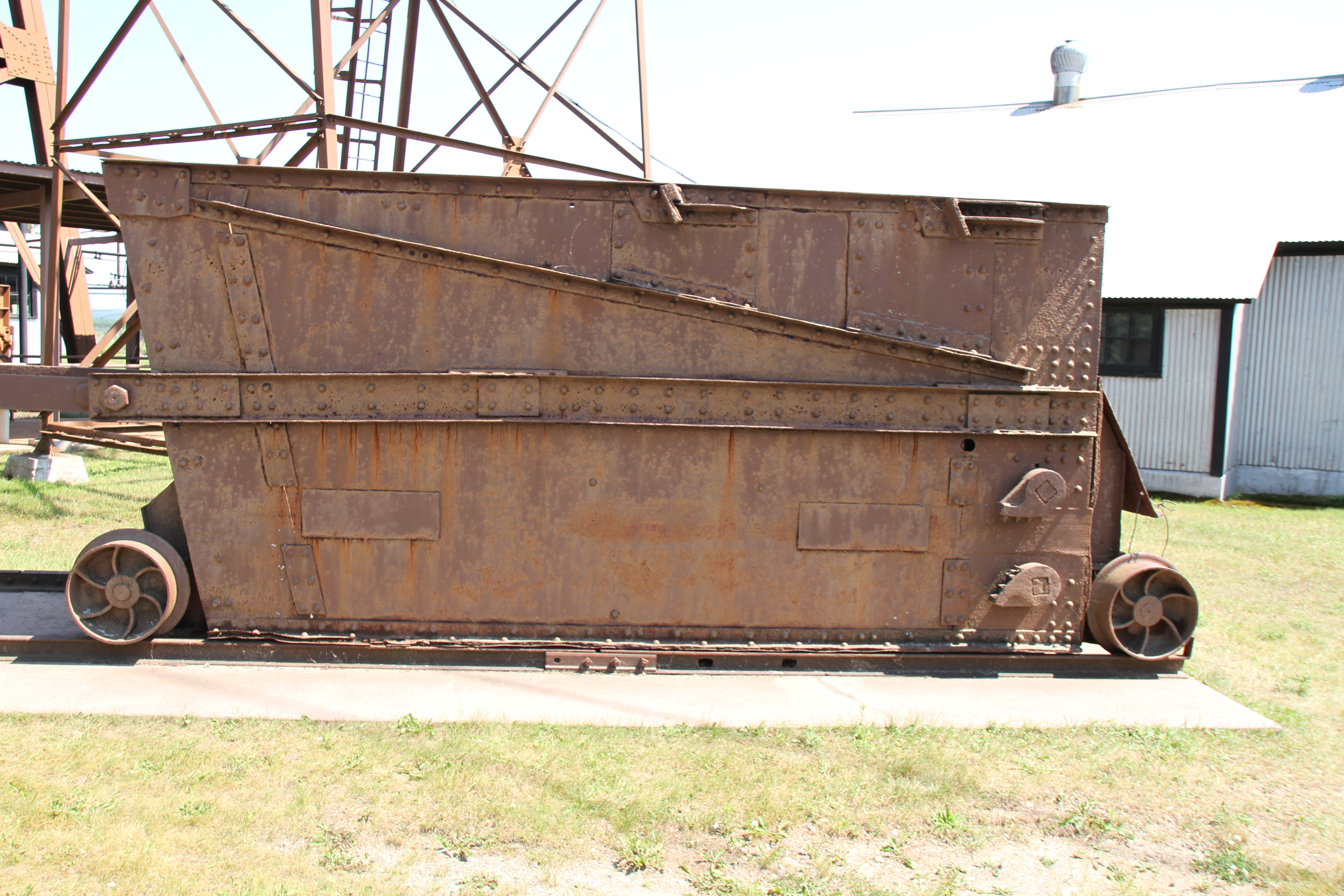 Image from the museum exhibits of Soudan Underground Iron Mine, in Tower-Soudan in St Louis County, Minnesota